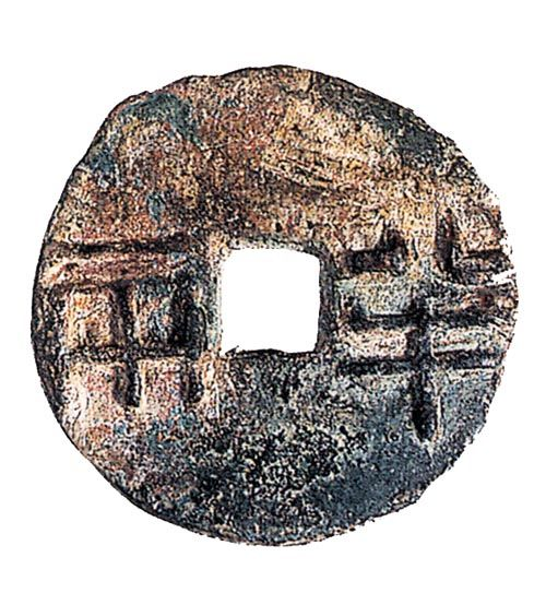 coin of Han Dynasty